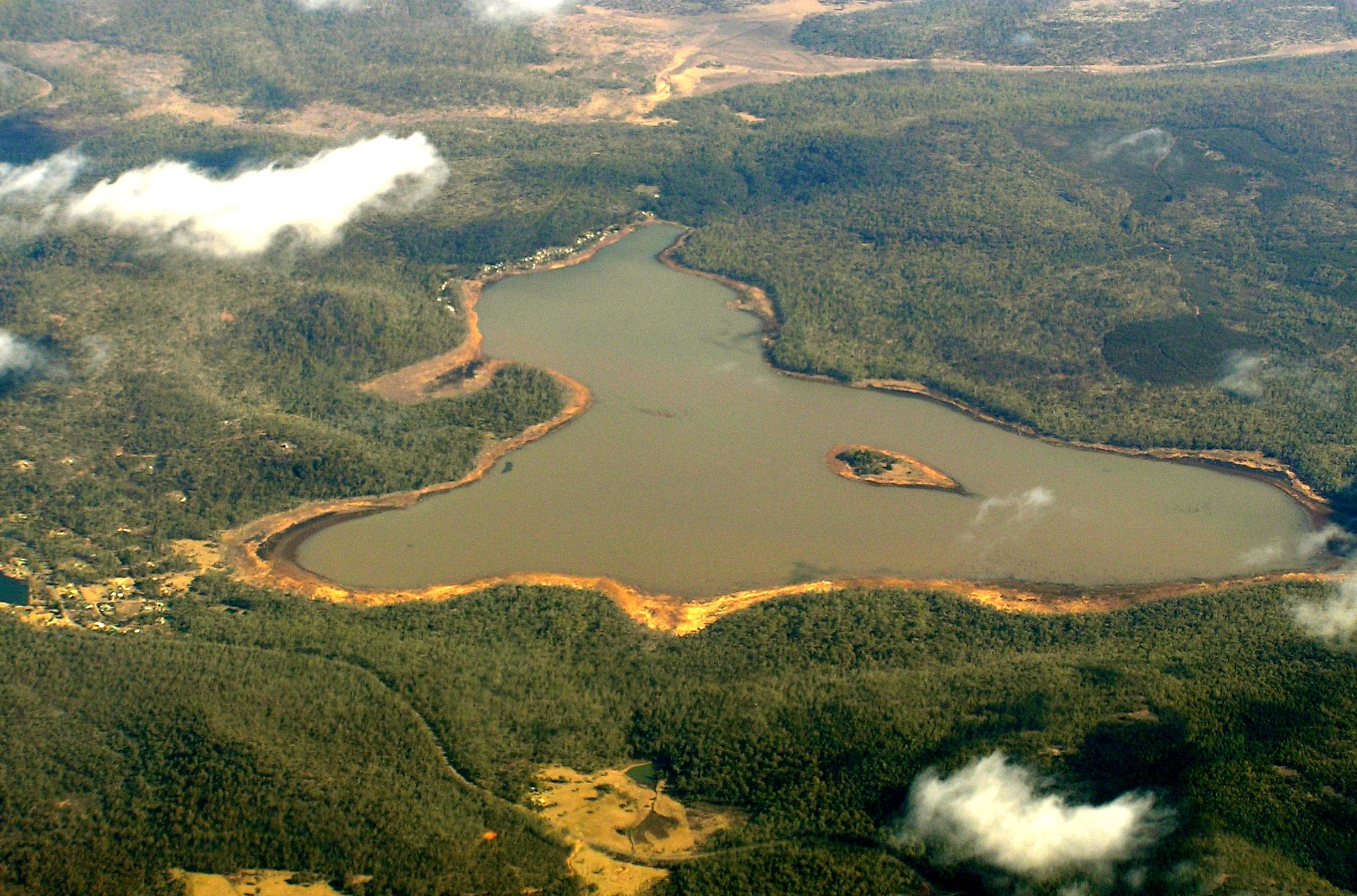 Aerial photo of Lake Leake Tasmania from the east side. Village is also in the picture.